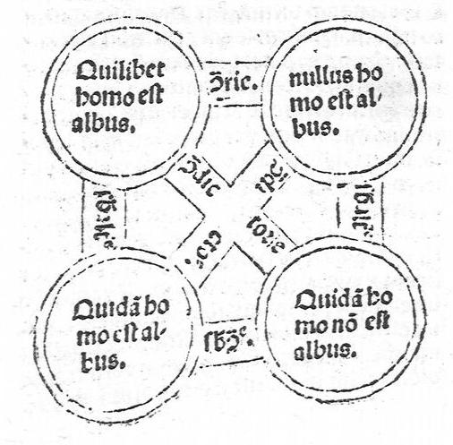 Square of opposition from book by John Major, published Venice, 15th cent